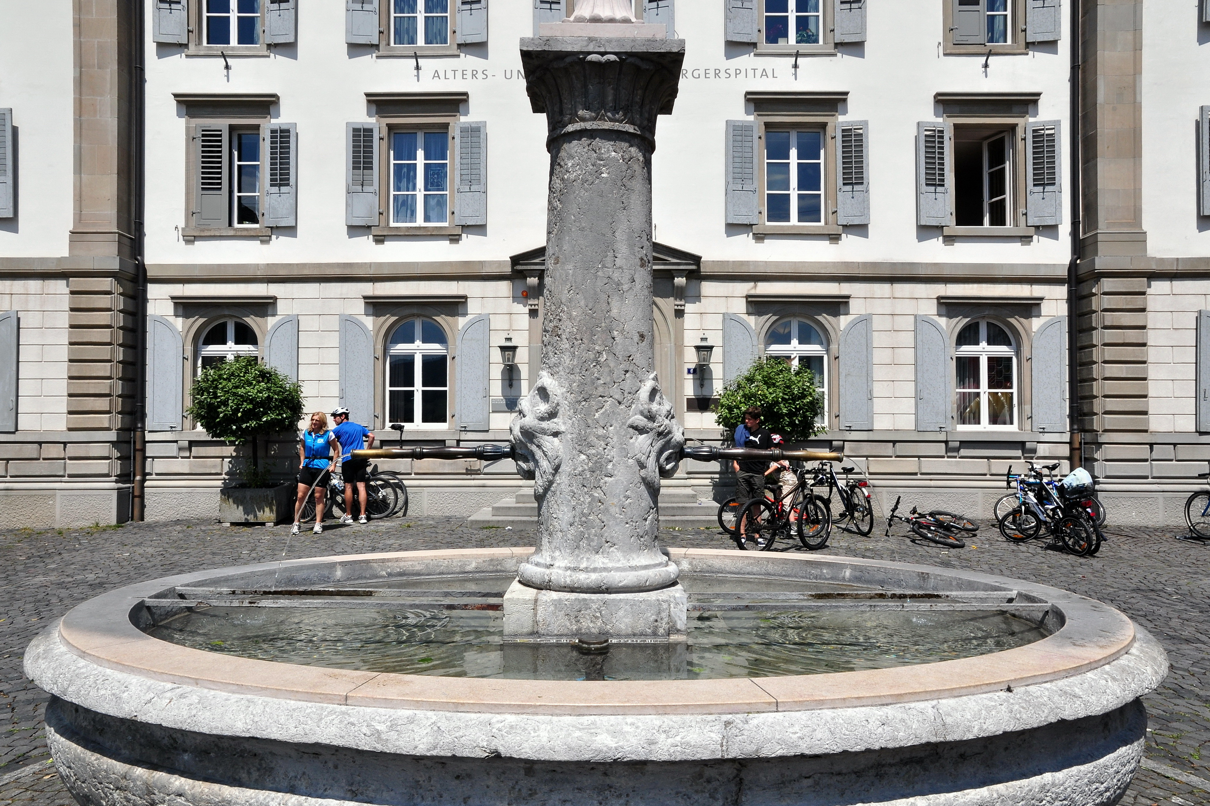 The former Heiliggeist-Spital (1845, first mentioned in 13th Century) at Fischmarktplatz in Rapperswil (Switzerland)